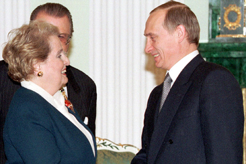 THE KREMLIN, MOSCOW. With US Secretary of State Madeleine Albright.